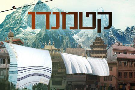 "Kathmandu" is a TV series aired on Israeli television in 2012